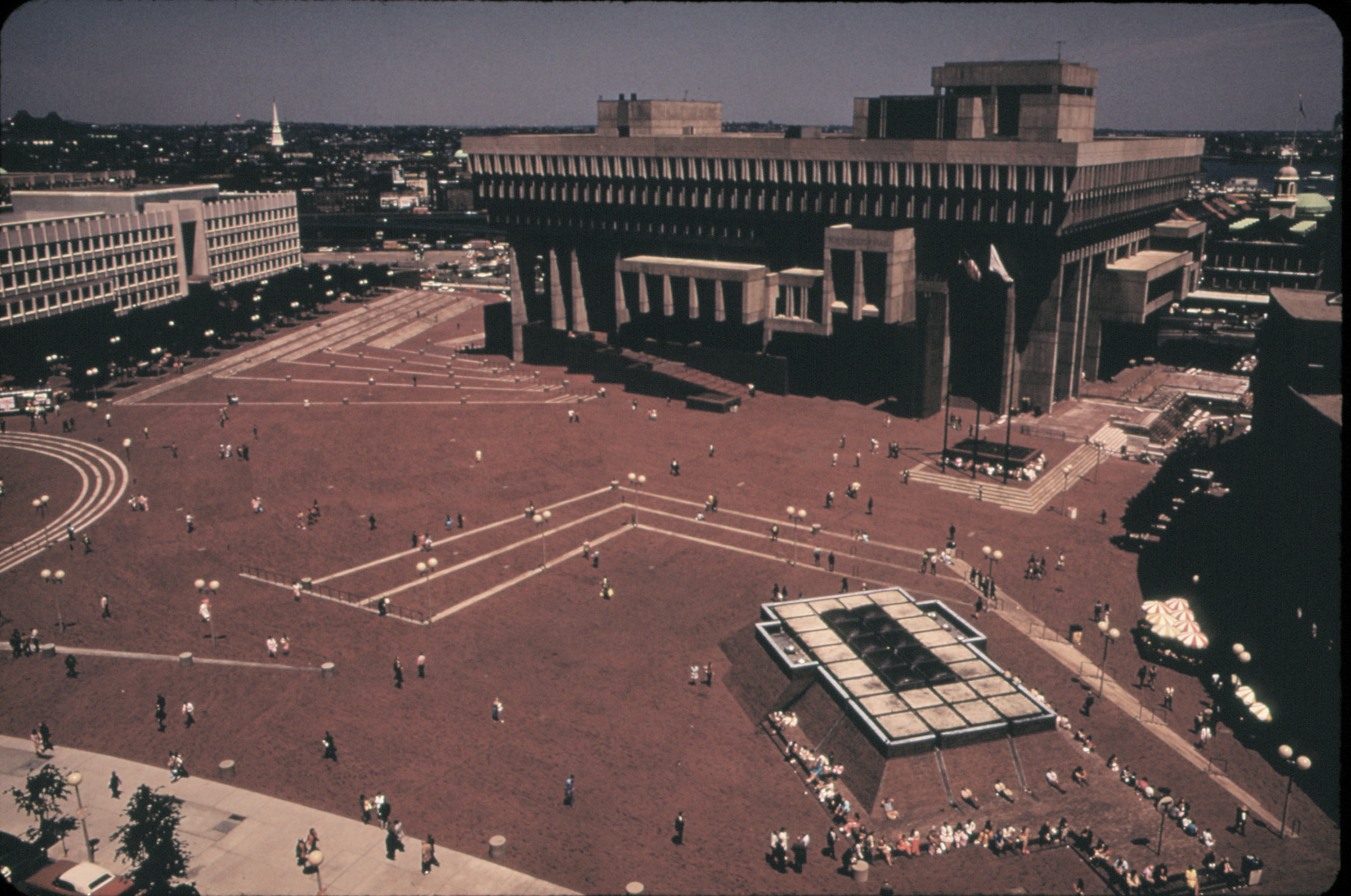 Original Caption: City Hall Plaza 05/1973 U.S. National Archives’ Local Identifier: 412-DA-7514 Photographer: Halberstadt, Ernst, 1910-1987 Subjects: Boston (Suffolk county, Massachusetts, United States) inhabited place Environmental Protection Agency Project DOCUMERICA Persistent URL: Repository: Still Picture Records Section, Special Media Archives Services Division (NWCS-S), National Archives at College Park, 8601 Adelphi Road, College Park, MD, 20740-6001. For information about ordering reproductions of photographs held by the Still Picture Unit, visit: Reproductions may be ordered via an independent vendor. NARA maintains a list of vendors at Access Restrictions: Unrestricted Use Restrictions: Unrestricted |Source= City Hall Plaza 05/1973 |Date=1973-01-01 00:00 |Author=The U.S. National Archives